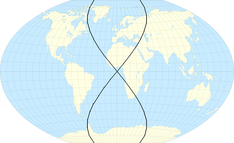 Lines of equal latitude and longitude sketch